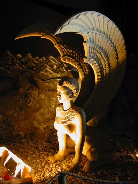 Sphinx from the 1984 film "The NeverEnding Story".